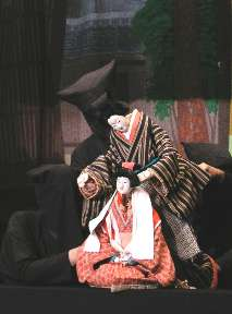 Photograph by self.